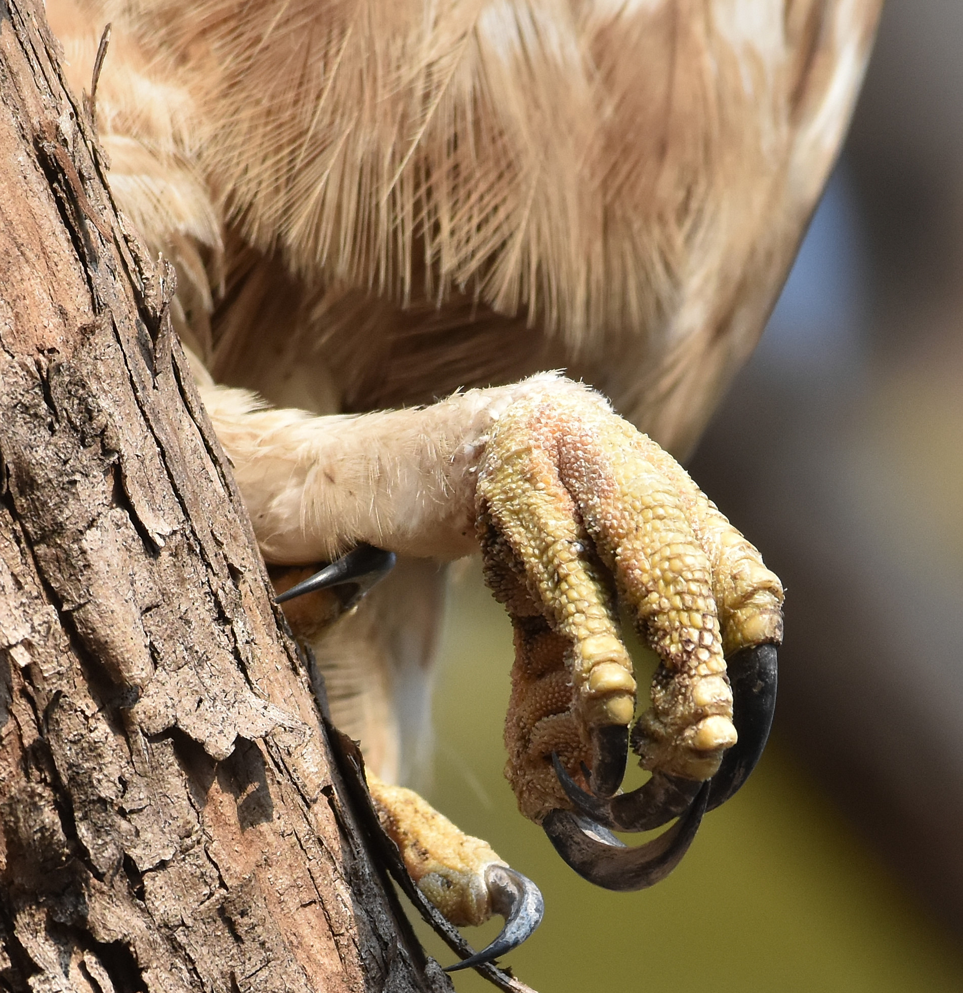 Changable Hawk Eagle